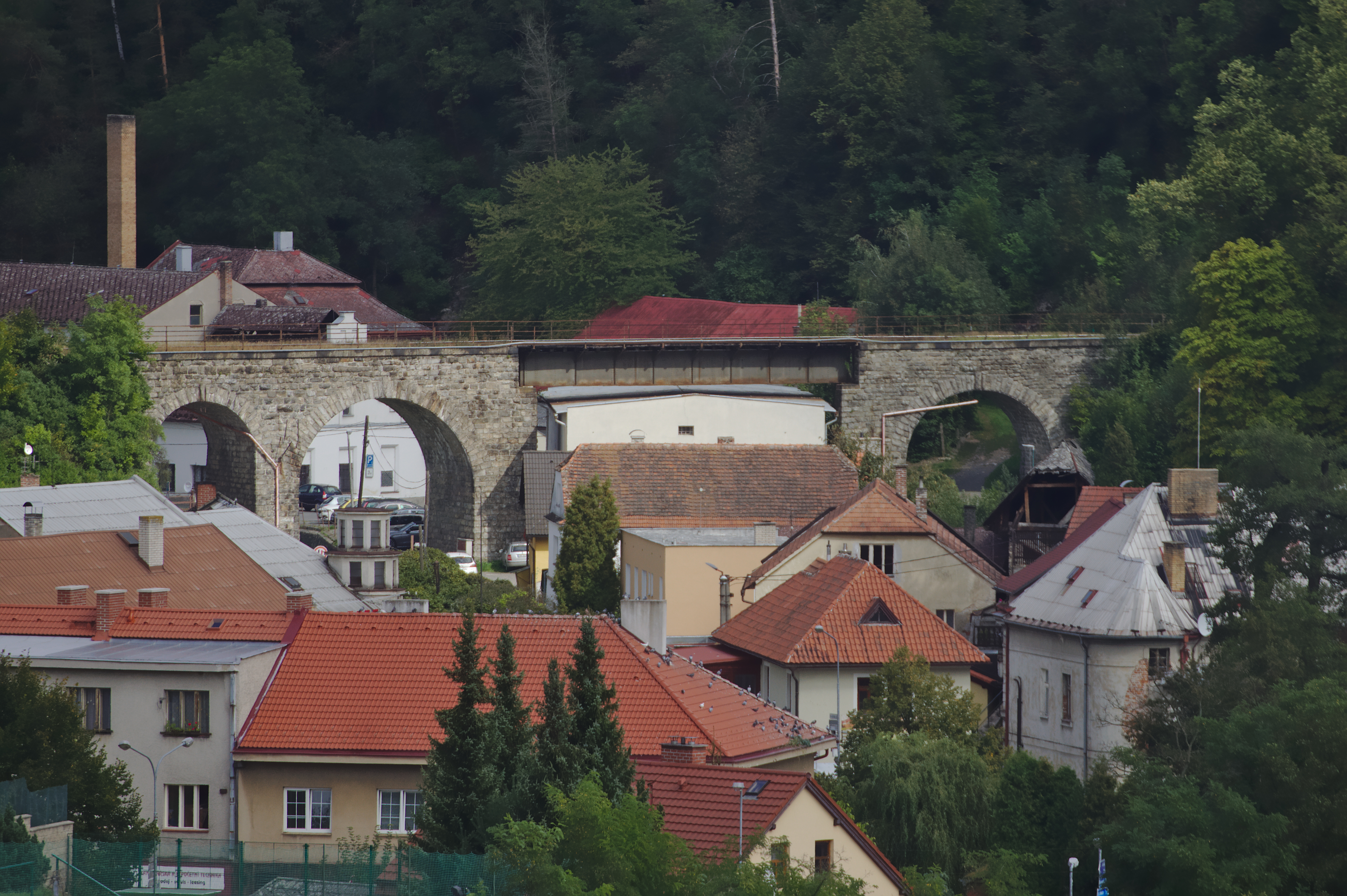 A rail bridge in Ledeč nad Sázávou, CZ